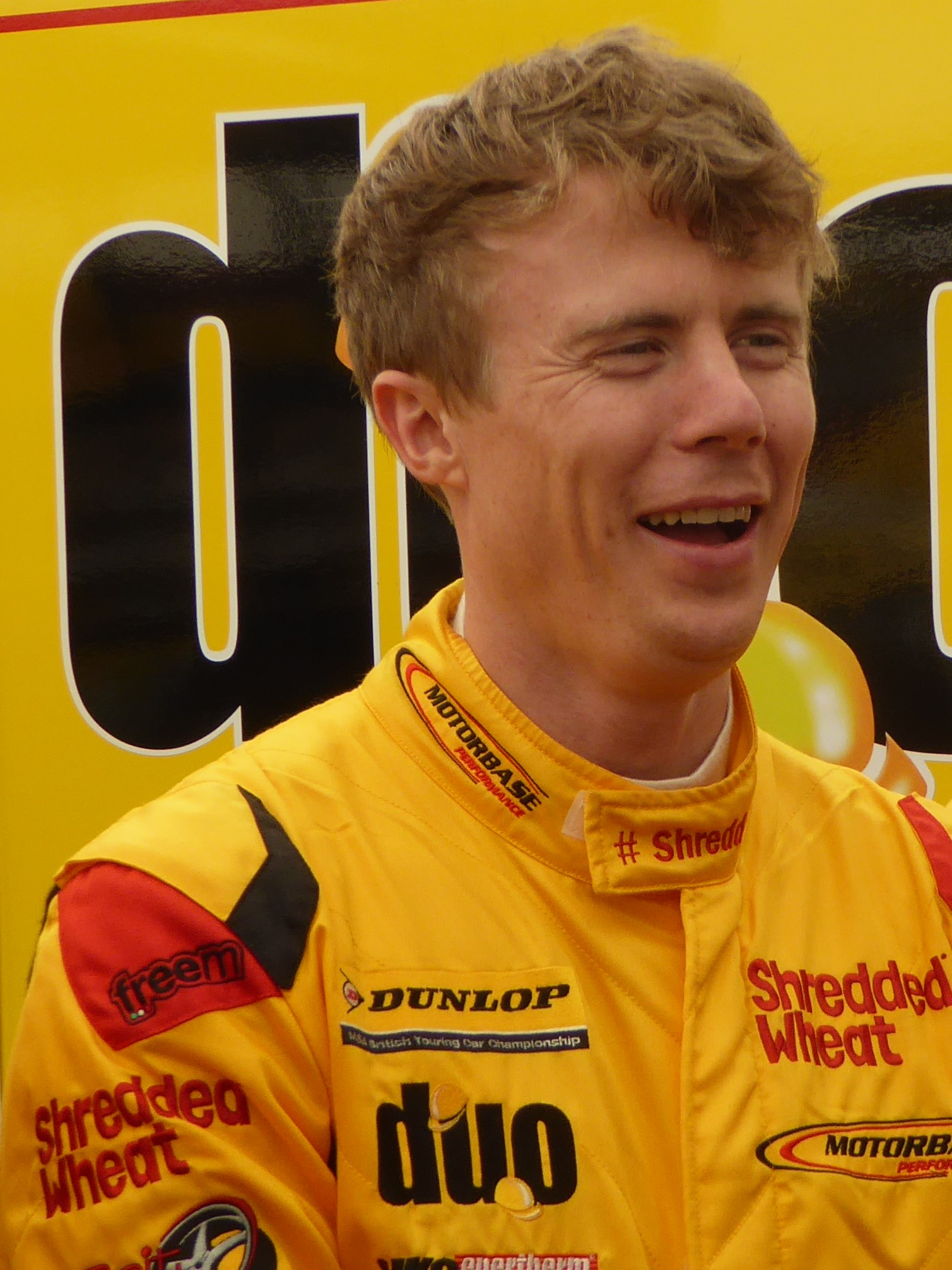 Rory Butcher (Team Shredded Wheat Racing with Duo), at the Knockhill round of the 2017 British Touring Car Championship.